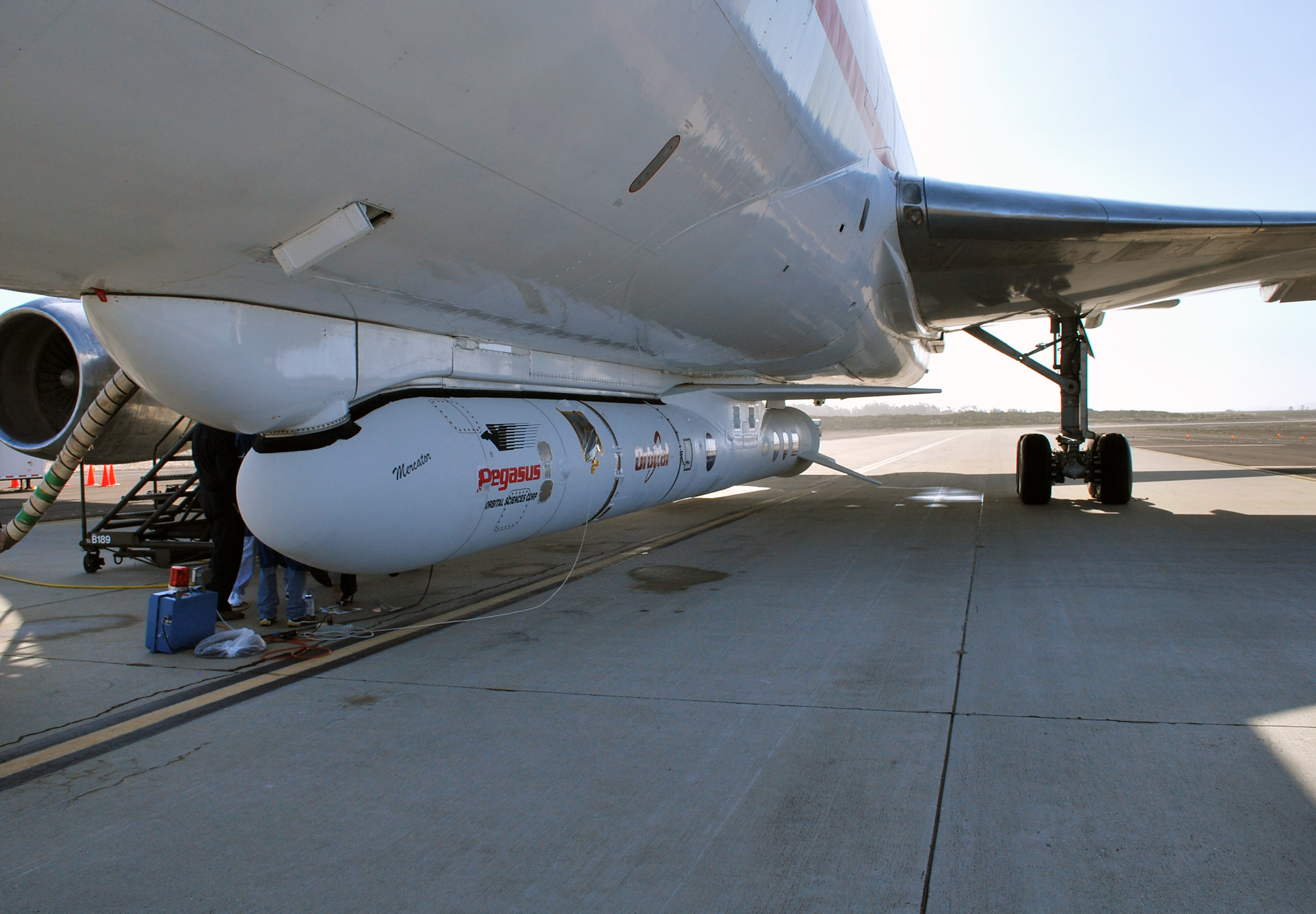 VANDENBERG AIR FORCE BASE, Calif. – On the ramp of Vandenberg Air Force Base in California, Orbital Sciences’ L-1011 aircraft awaits departure for the Kwajalein Atoll, a part of the Marshall Islands in the Pacific Ocean, with NASA’s Interstellar Boundary Explorer, or IBEX, spacecraft and Pegasus XL rocket. The Pegasus is attached under the wing of the aircraft for launch. Departing from Kwajalein, the Pegasus rocket will be dropped from under the wing of the L-1011 over the Pacific Ocean to carry the spacecraft approximately 130 miles above Earth and place it in orbit. Then, the spacecraft’s own engine will boost it to its final high-altitude orbit (about 200,000 miles high) — most of the way to the Moon. The IBEX satellite will make the first map of the boundary between the Solar System and interstellar space. IBEX science will be led by the Southwest Research Institute of San Antonio, Texas. IBEX is targeted for launch over the Pacific Oct. 19. Photo credit: NASA/Randy Beaudoin, VAFB